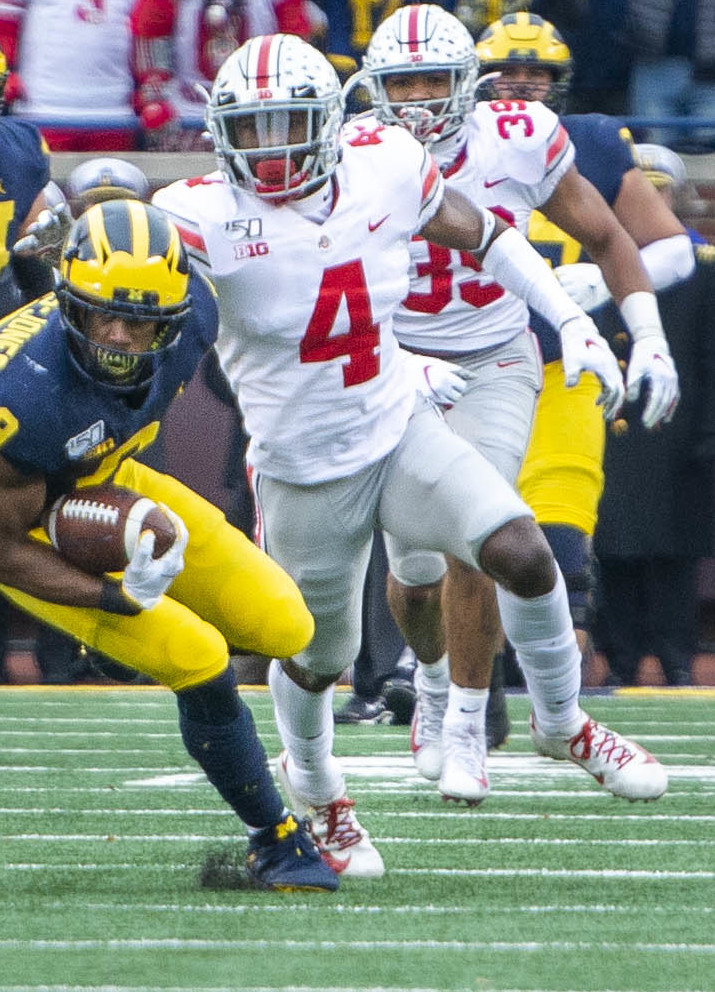 Jordan Fuller playing against Michigan in 2019